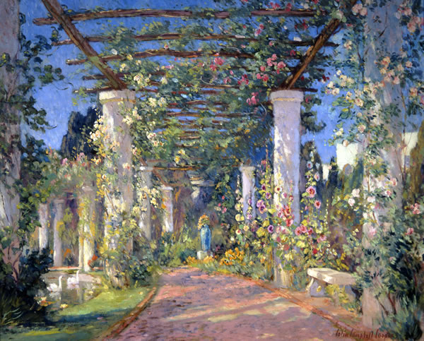 Pergola at Samarkand, Colin Campbell Cooper, oil on canvas, 29 x 36 in